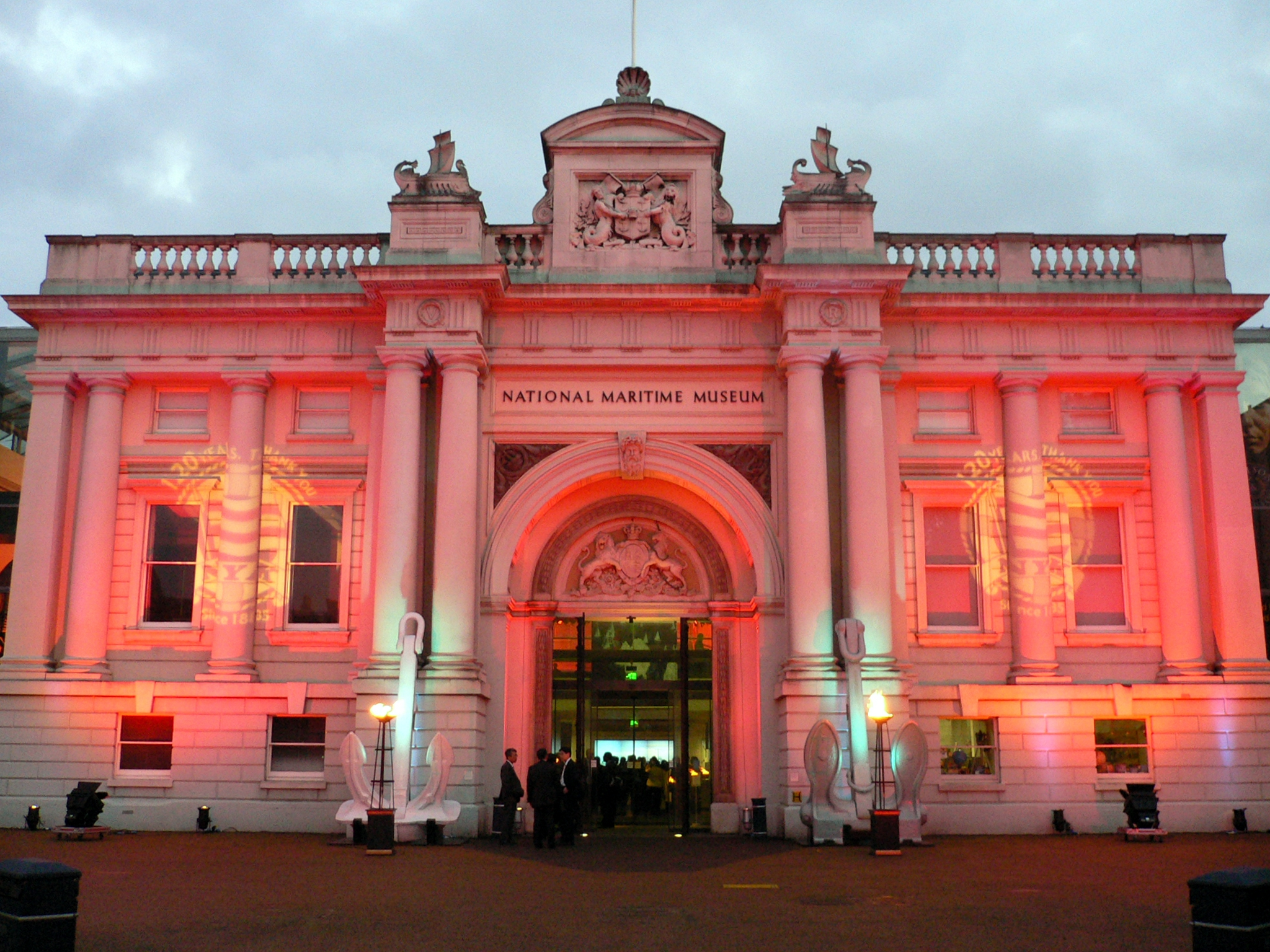 Summary: National Maritime Museum, London, England Author: Wolfiewolf / Herry Lawford